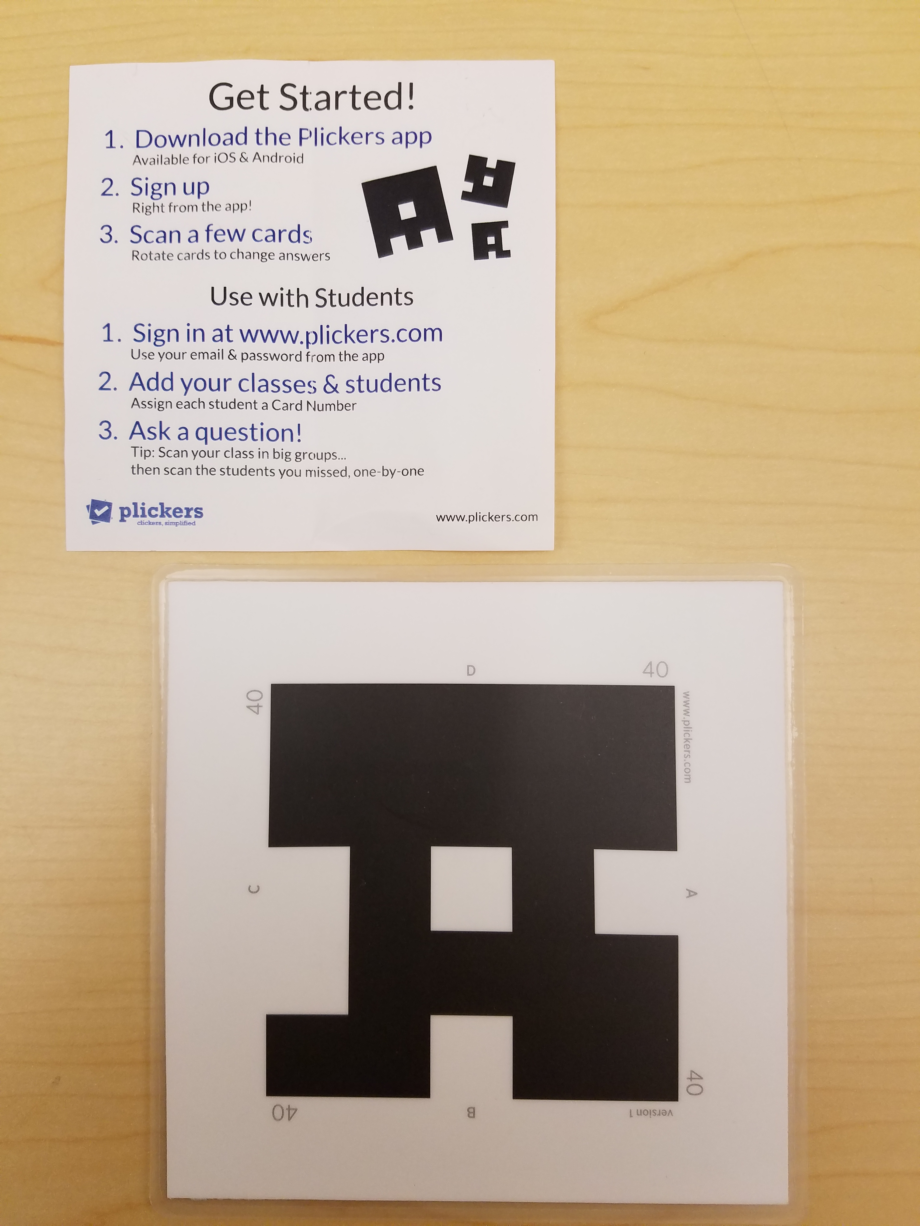 Plickers cards set allows students to respond to teacher assessments in a fun and interactive method to check for understanding.